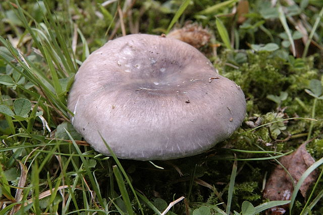 Russula spec. from Commanster, Belgium. The determination of the species shown in this picture has been verified.